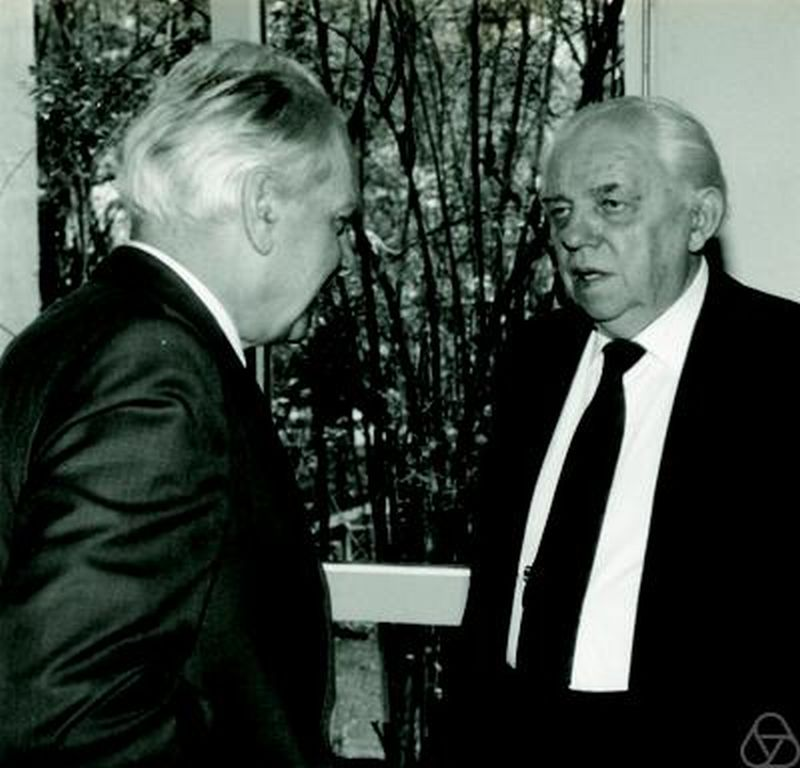 Karl-Heinrich Weise (right) at the Otto Haupt Kolloquium 1987 in Erlangen, with Martin Barner